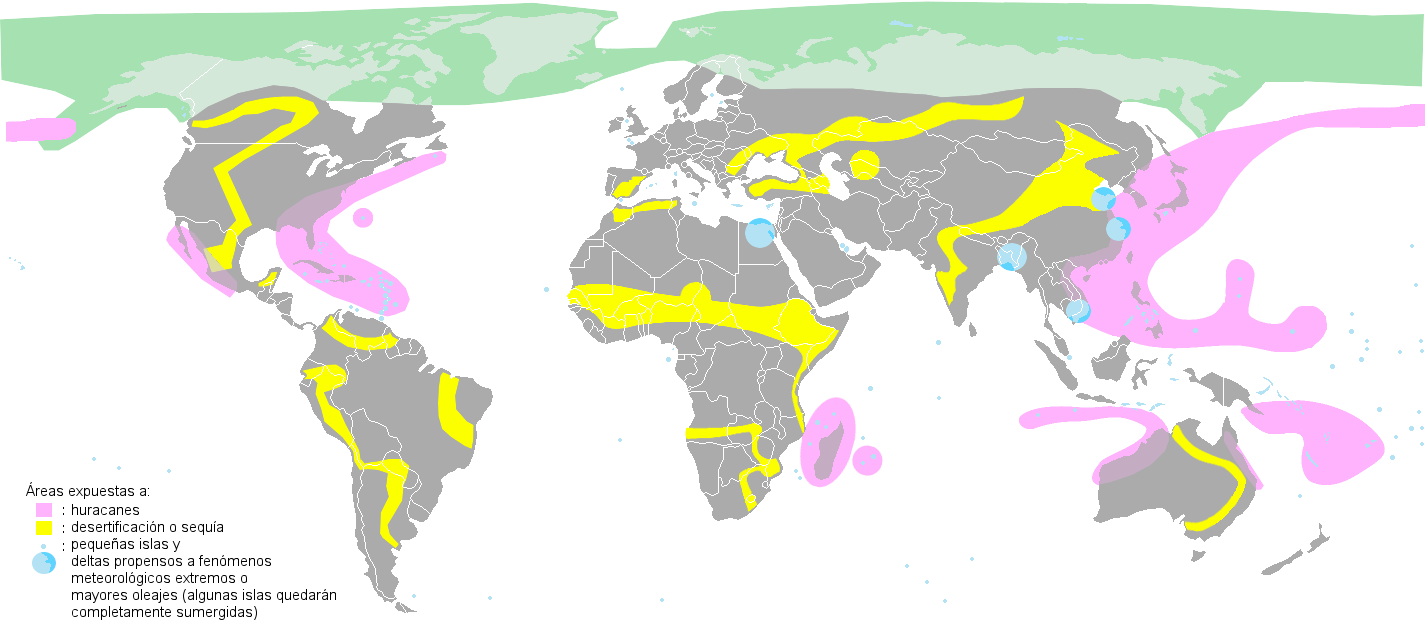 Version in Spanish of "A schematic showing the regions where natural disasters will occur due to climate change", already in Commons